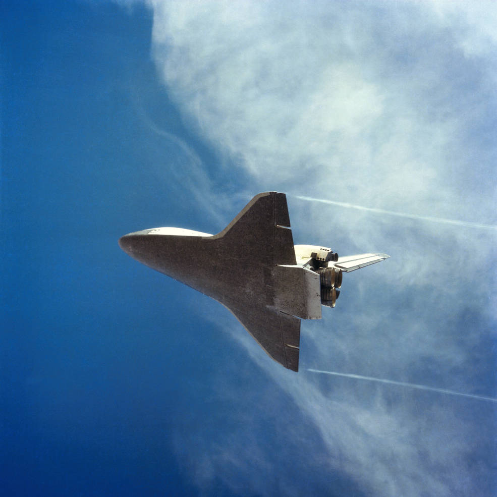 The underside of Columbia as it makes its final approach before landing on the Rogers Dry Lakebed at Edwards Air Force Base, California. The Shuttle was piloted by Richard Truly who would go on to become NASA's eighth Administrator.